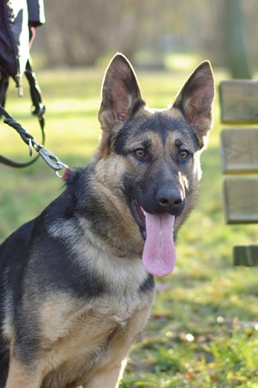 german shepherd